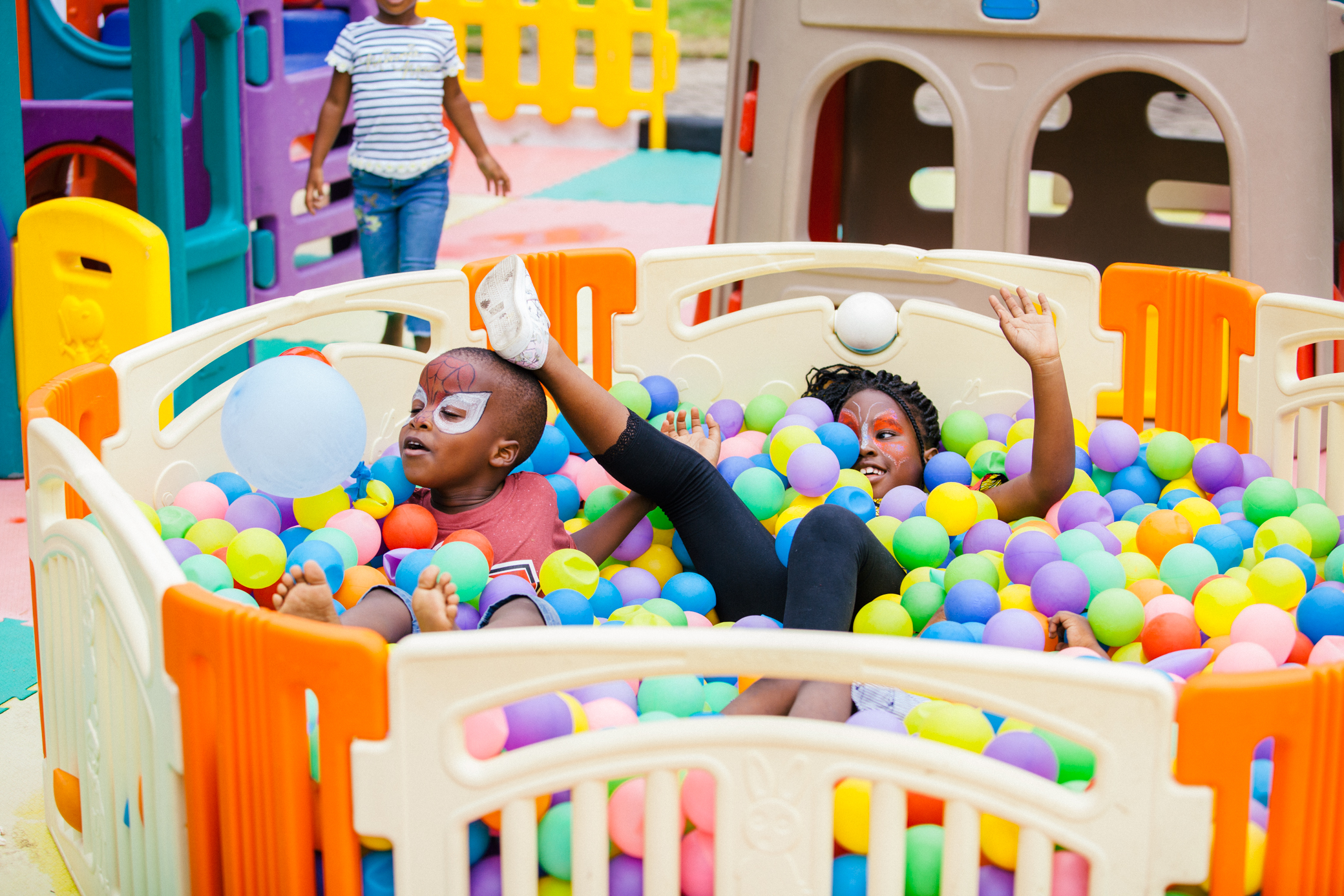 The child plays and enjoys at a children's event organized by a stanbic bank Kiswahili: mtoto akicheza na kufurahi katika tamasha la watoto lililoratibiwa na benki ya stanbic This is an image with the theme "Play" from: Tanzania